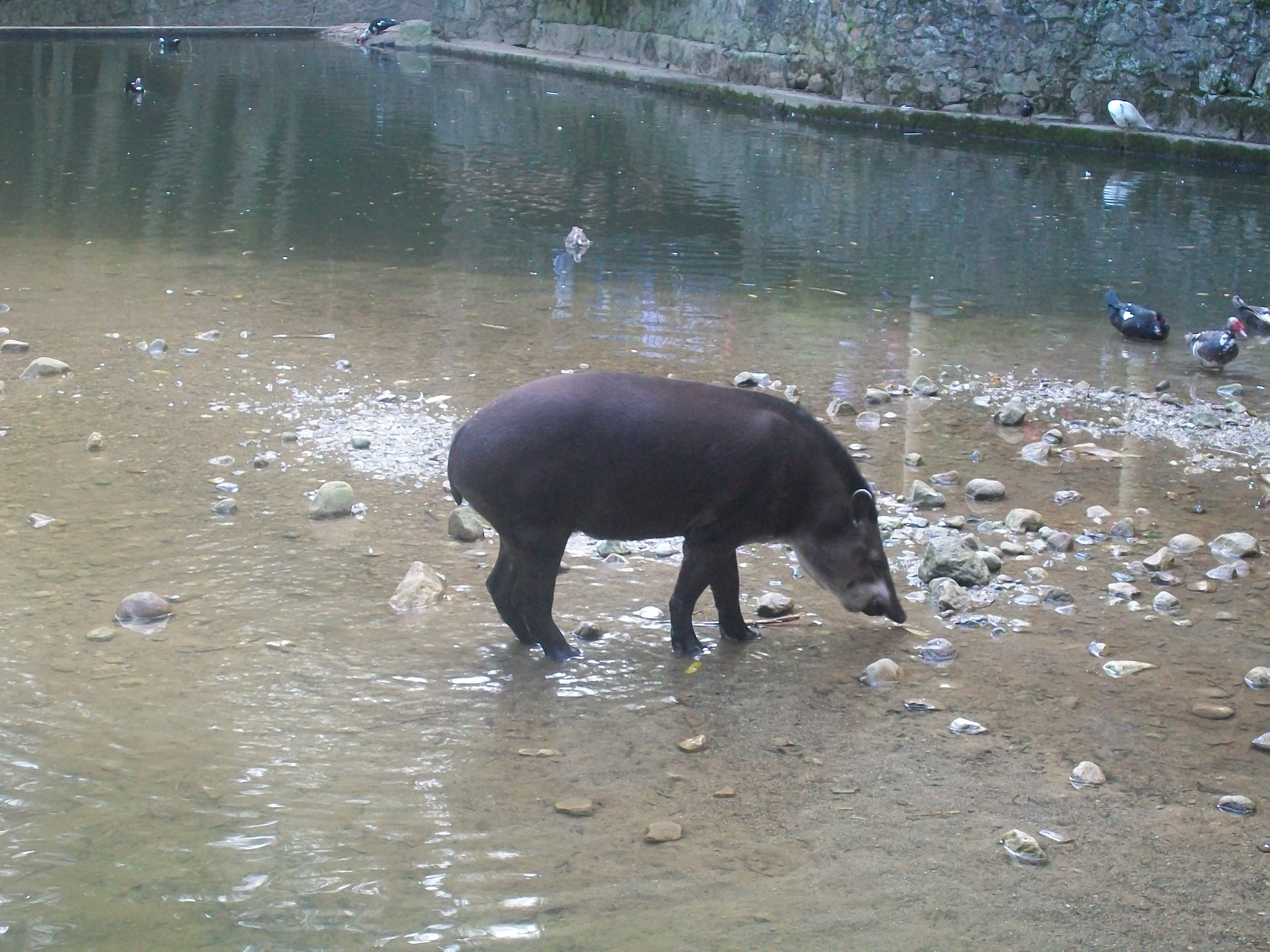 Tapir drinking off a pond in the Mérida Zoo, Venezuela